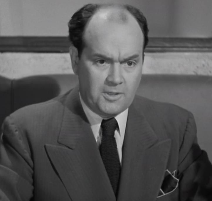 Rhys Williams in Blood on the Sun - cropped screenshot